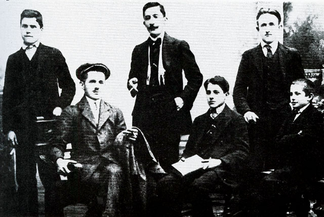 Young Bosnia members. Standing: 1. ?, 2. Bogdan Žerajić, 3. ?; Sitting: 1. Jovo Princip (Gavrilo's older brother), 2. Gavrilo Princip, 3. Nikola Princip (little brother of Gavrilo).